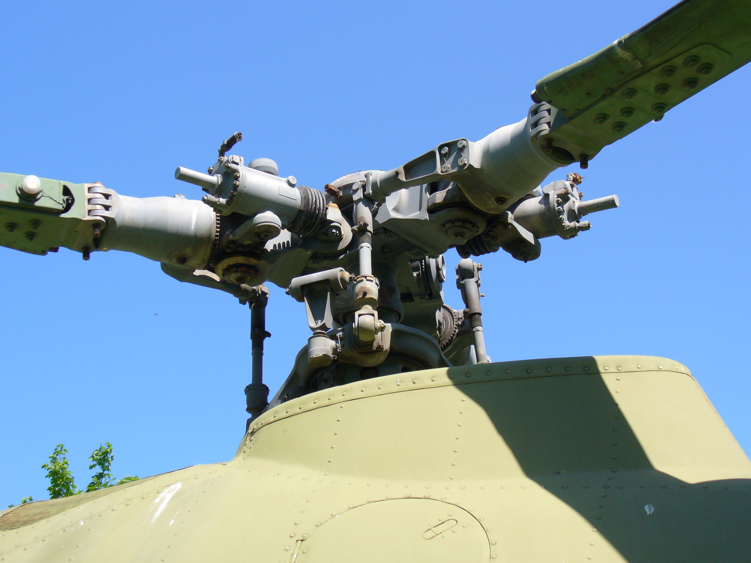 The Mil Mi-2 (NATO reporting name is Hoplite). The rotor. Ukrainian Air Force Museum in Vinnitsa.